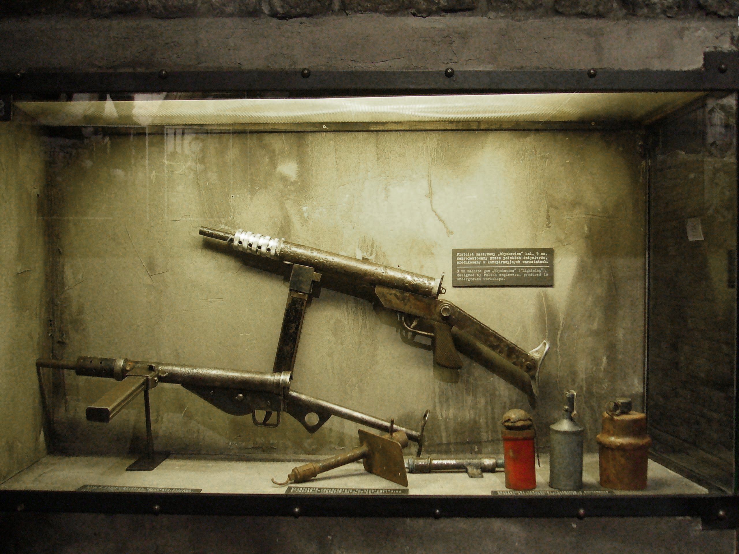 Weapons used by Polish insurgents during the Warsaw Uprising. Upper: Błyskawica SMG, lower: STEN Mk.II. Photo from Muzeum Powstania Warszawskiego